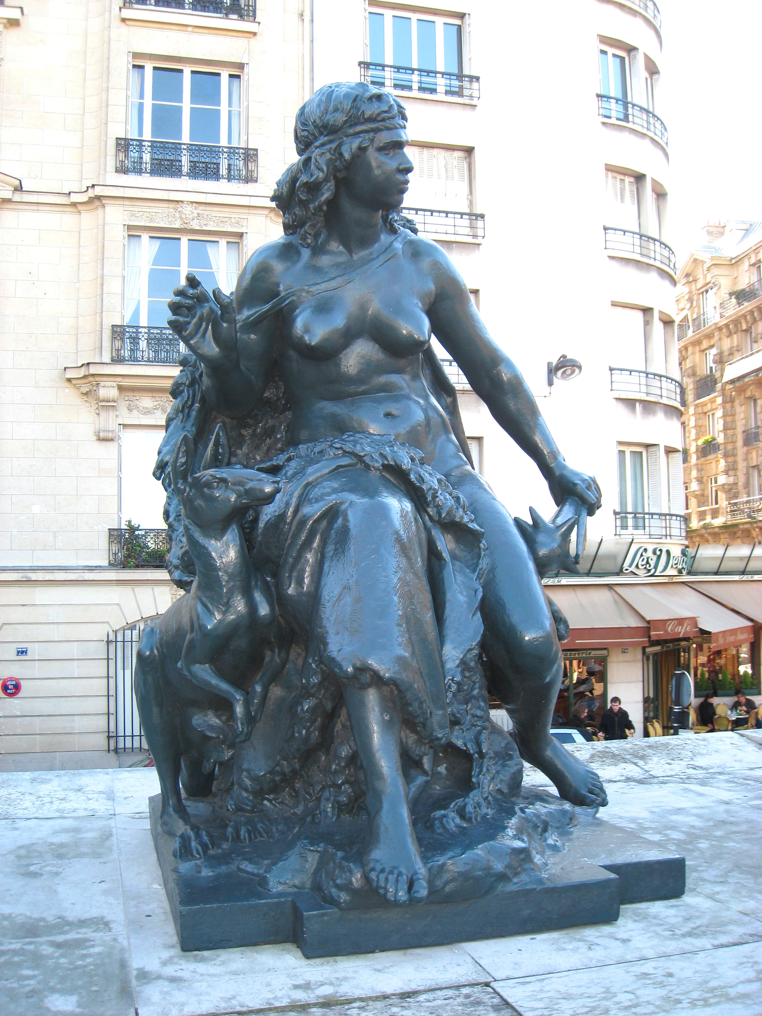 Mathurin Moreau - L'Océanie - parvis du Musée d'Orsay, Paris, France. This statue is old enough so that copyright (if any) has long since expired.